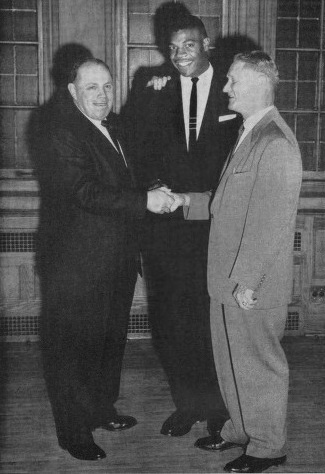 Photograph of Purdue football player Lamar Lundy receives 1955 Most Valuable Player award from Jack Mollenkopf (left) and Guy Mackey (right)